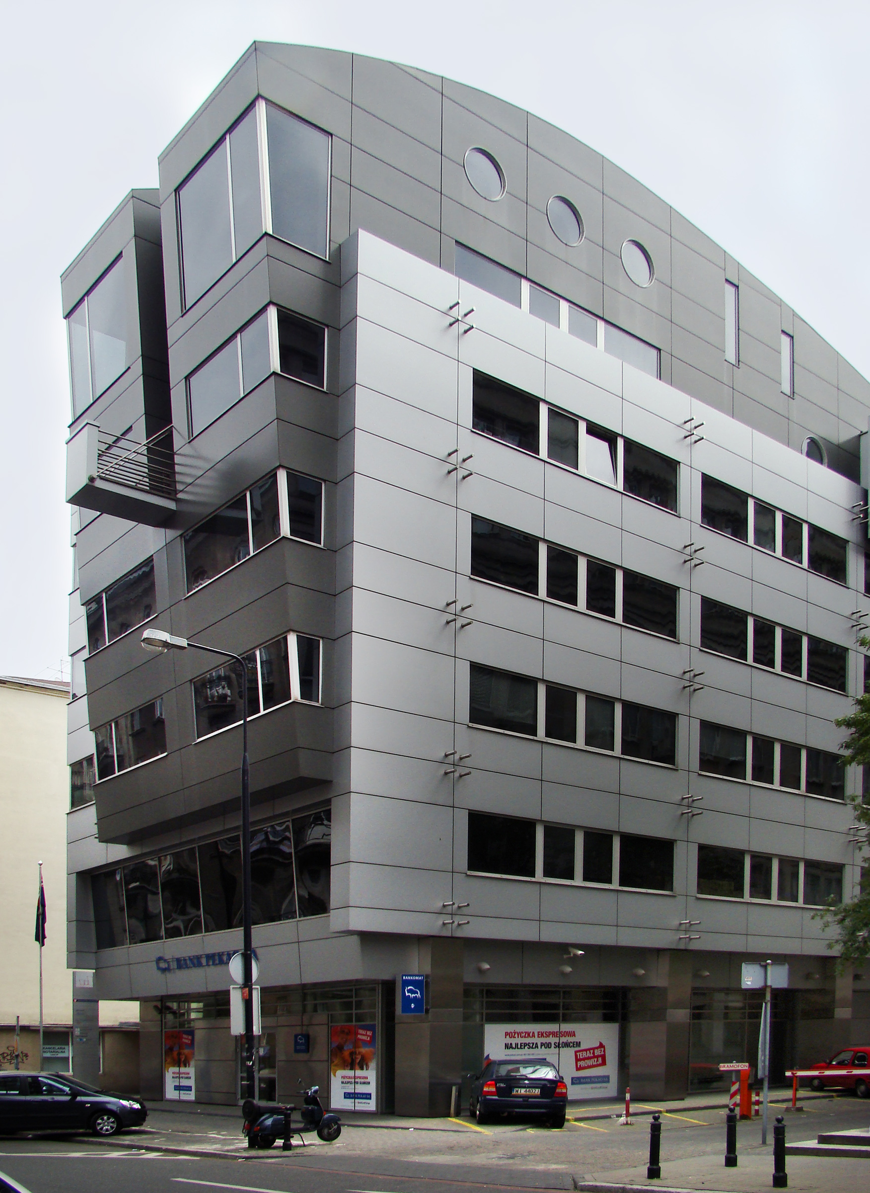 Australian Embassy, Nautilus Building, Warsaw, arch. Stefan Kuryłowicz 1996.